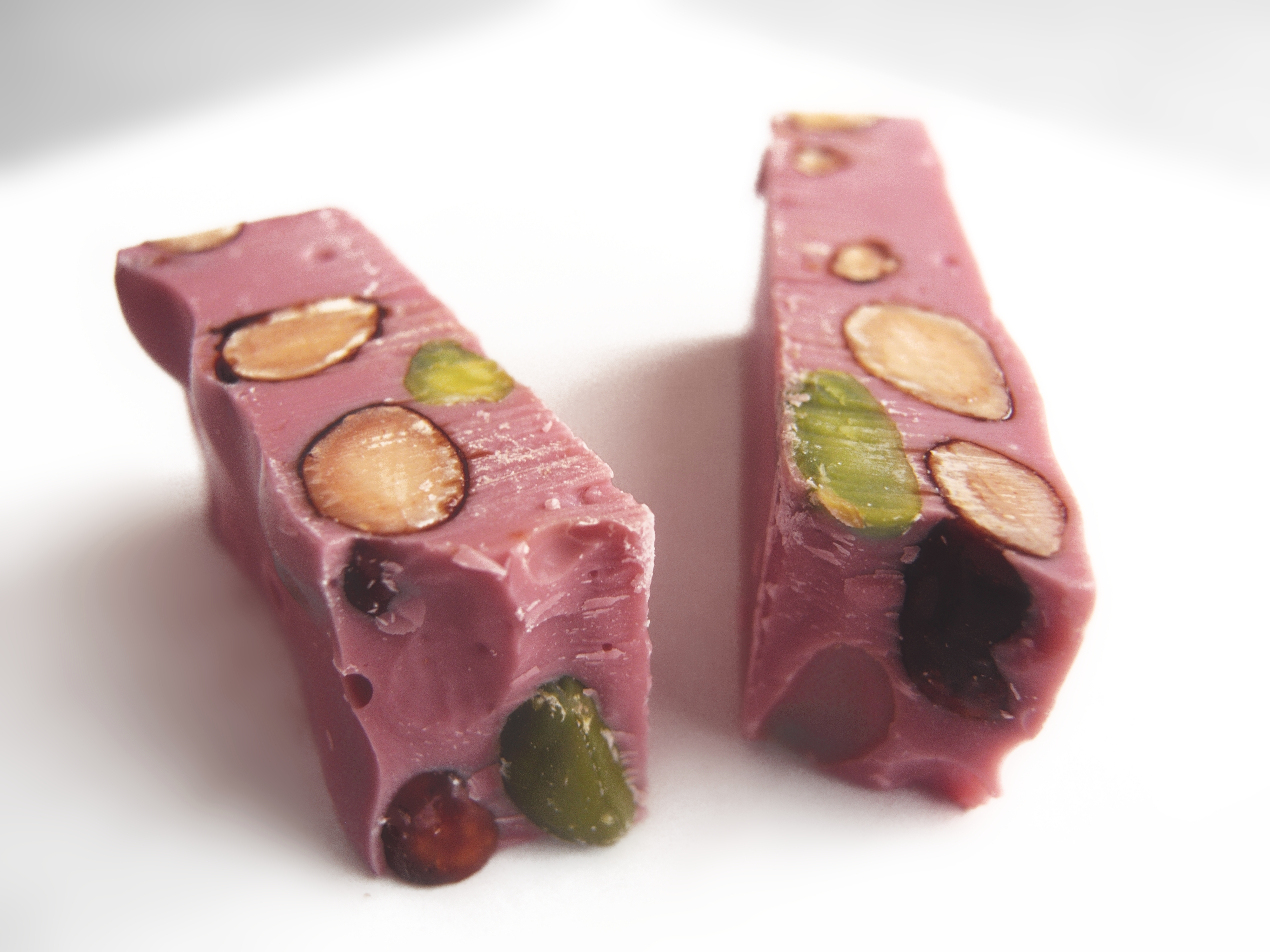 A 35 gram broken Ruby chocolate bar containing caramelised almonds and pistachios